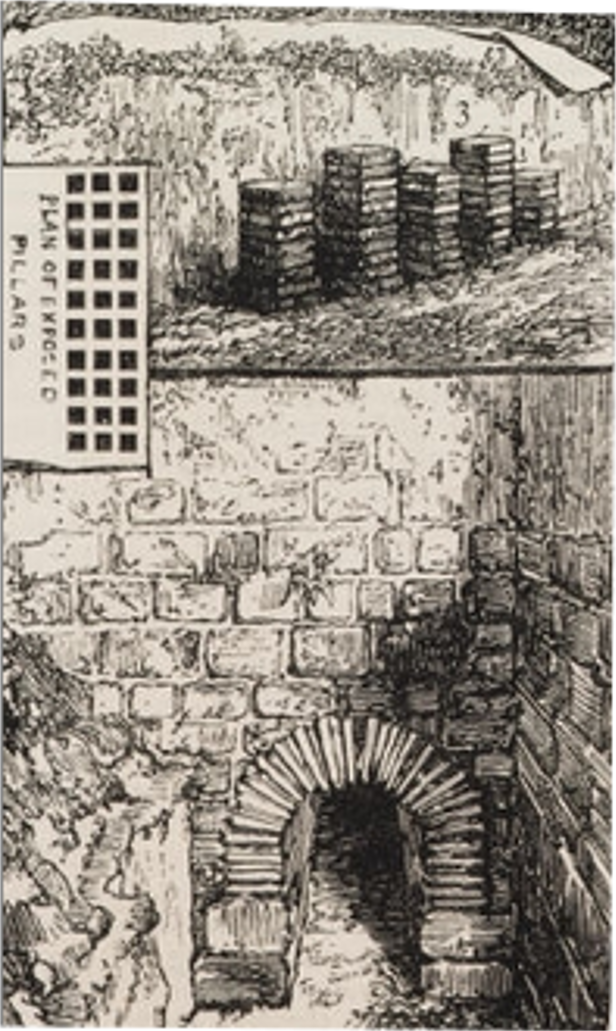 Roman Remains at Walls Castle or Ravenglass Roman Bath House, Cumberland: partial view of hypocaust in chamber and arch of praefurnium in chamber.